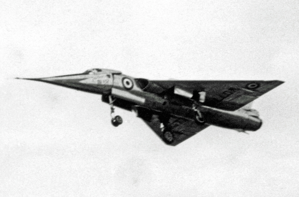 The first Fairey Delta 2 WG774 in original form landing at the 1956 Farnborough Air SAhow using its 'droop snoot'.